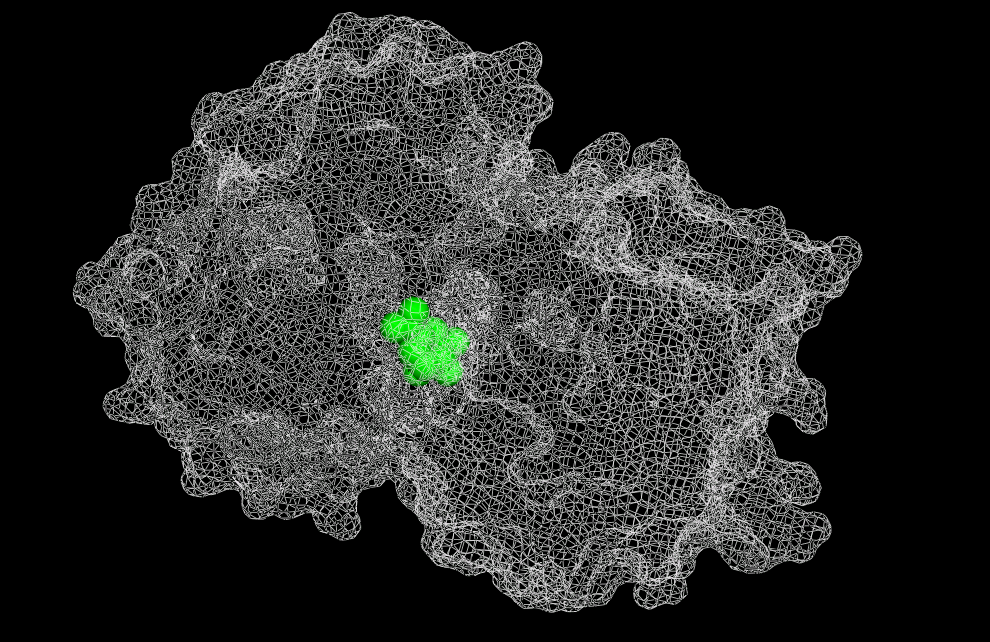 EPSP synthase liganded with shikimate